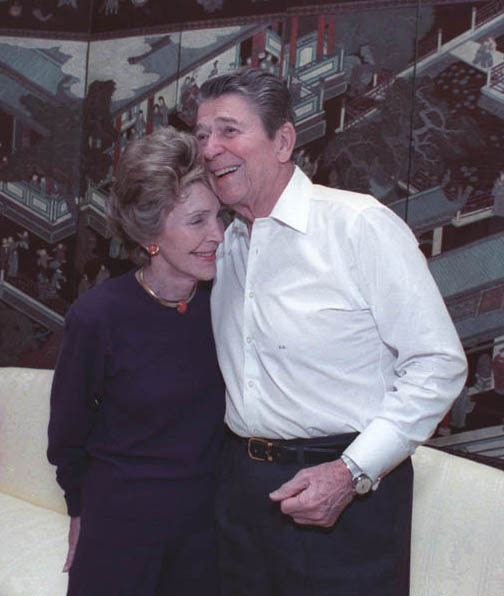 The Reagan's on their 36th wedding anniversary